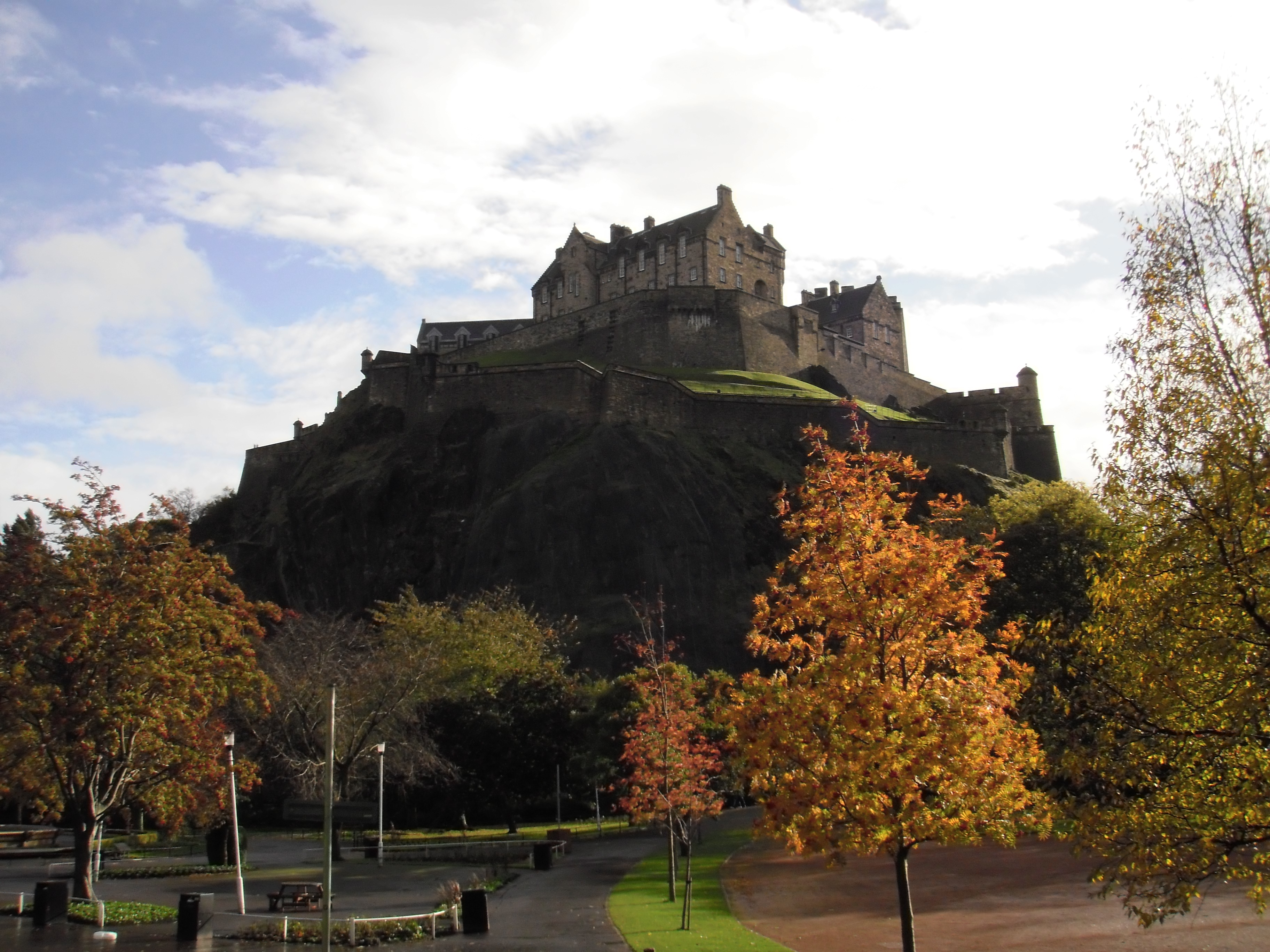 Castle of Edinburgh